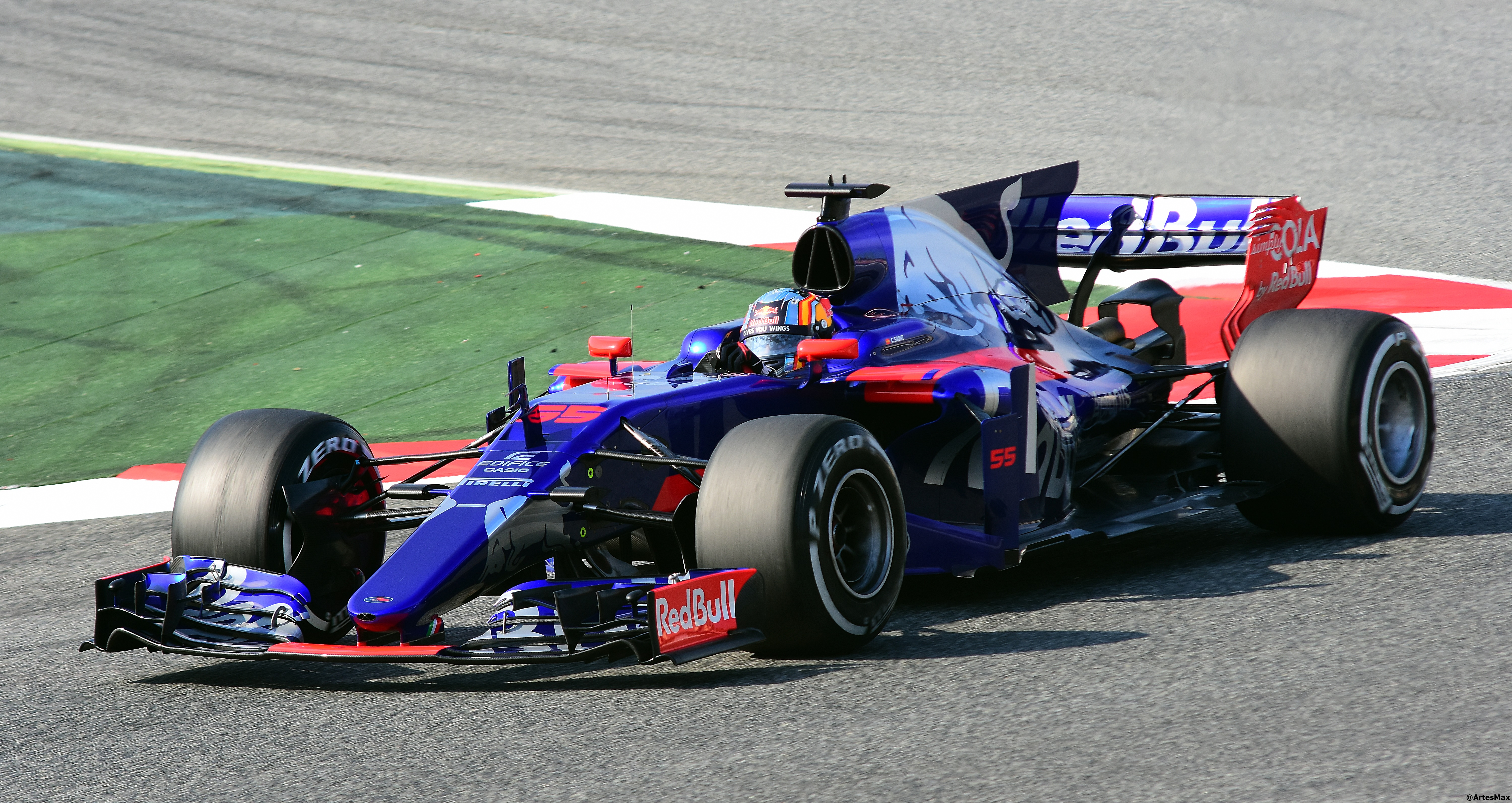 Carlos Sainz testing the Toro Rosso STR12 at Barcelona